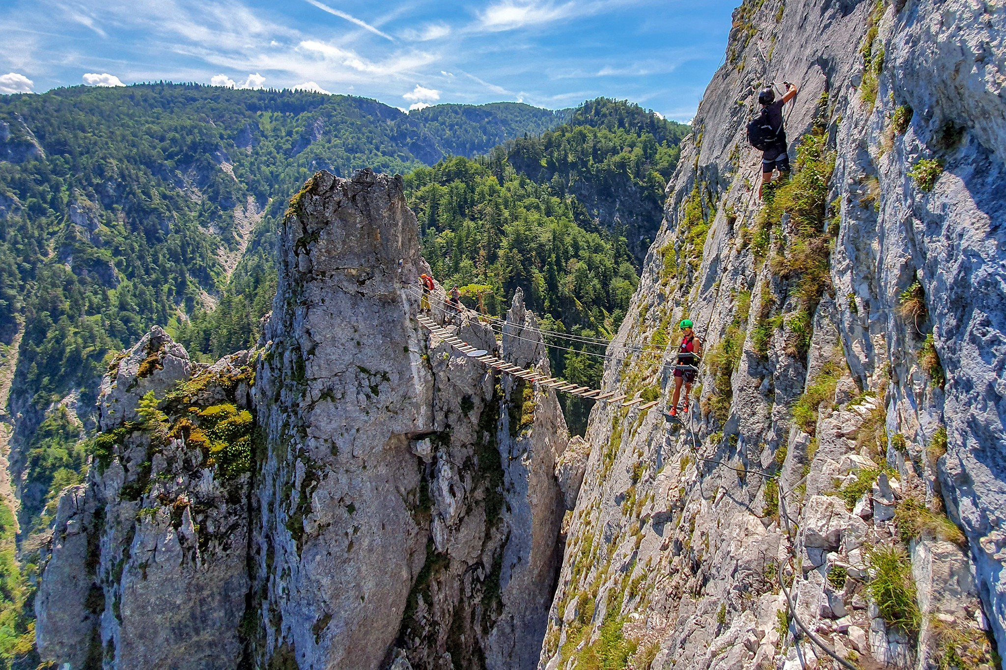 Via ferrata (fixed rope route) on the Drachenwand mountain (1176 m) in the Salzkammergut mountains, Austria.